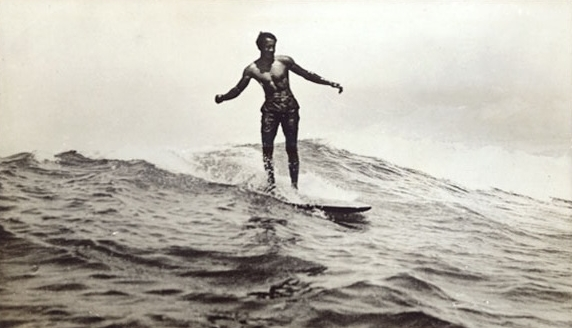 Duke Kahanamoku, Waikiki, 1910. Initially appearing as an advertising logo to promote his photographic studio Gurrey's Art and Photo Suppies, it was included in Gurrey's The Surf Riders of Hawaii. Honolulu, 1911-1914. And as the cover photograph of The Mid-Pacific Magazine Volume 1, Number 1. Alexander Hume Ford, Honolulu, January, 1911.